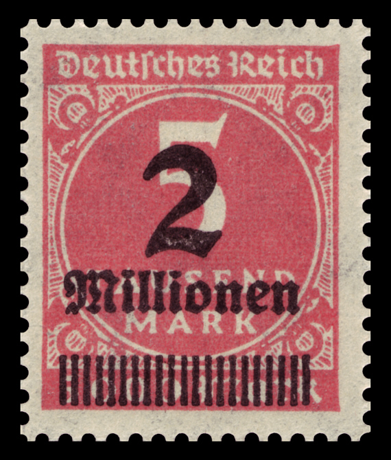 definitive stamp series numbers with overprints Ausgabepreis: 2 Millionen Mark auf 5000 Mark First Day of Issue / Erstausgabetag: 1. Oktober 1923 Michel-Katalog-Nr: 312A (Deutsches Reich)